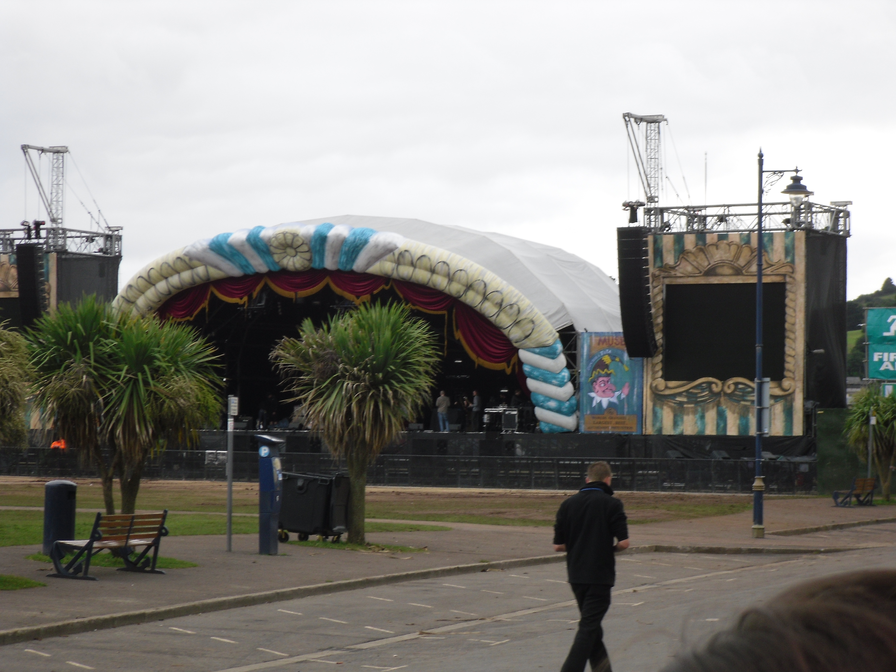 The stage for A Seaside Rendezvous at The Den, Teignmouth, Devon.